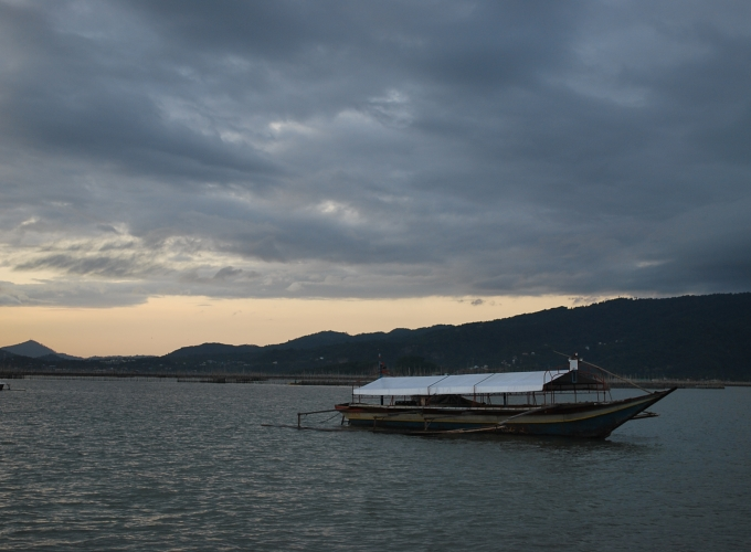 Laguna de Bay and Mt. Makiling